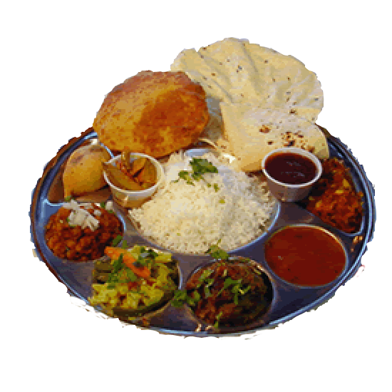 food